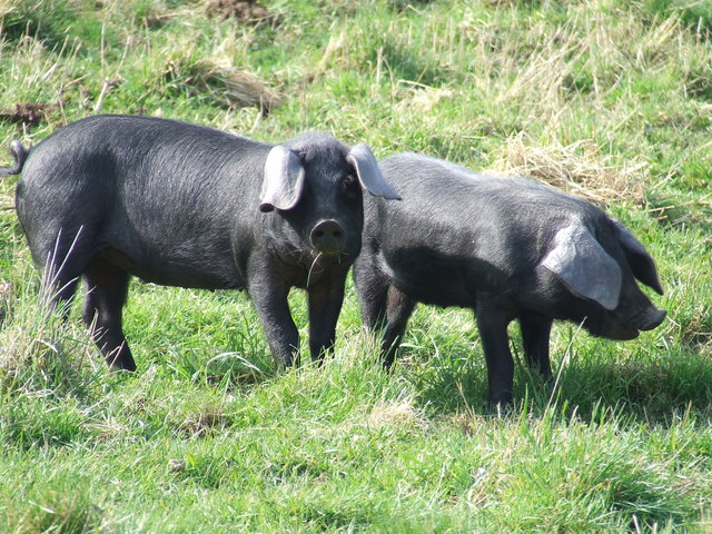 Large Black pigs